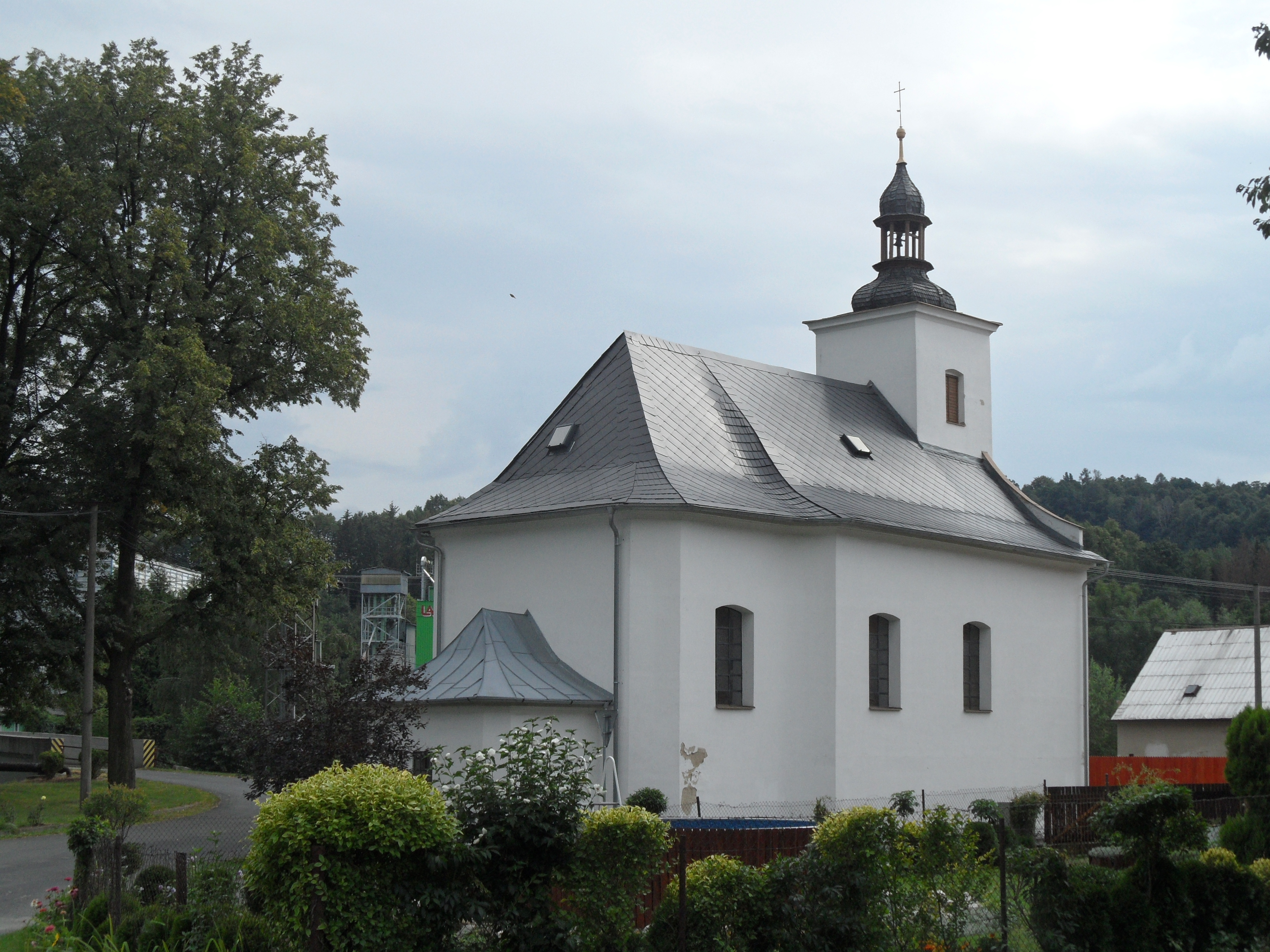 Velká Kraš: Church of Saint Mary: View from North. Jeseník District, the Czech Republic.